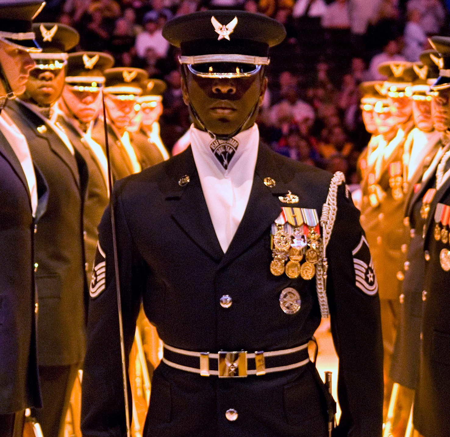 The Air Force Honor Guard drill team performs during a National Basketball Association game between the Chicago Bulls and Los Angeles Lakers in front of nearly 20,000 fans at the Staples Center in Los Angeles.